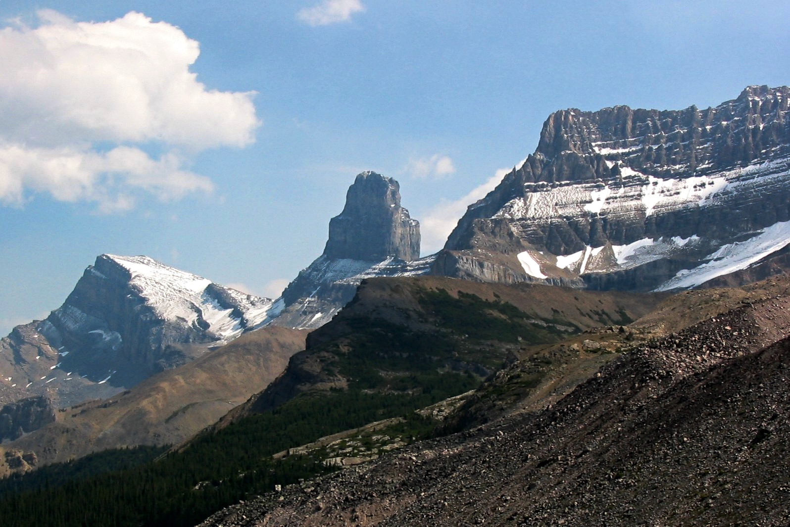 Left to right: Mount Christie, Brussels Peak, Mount Lowell. Viewed from head of Fryatt Valley. Jasper National park, Canada